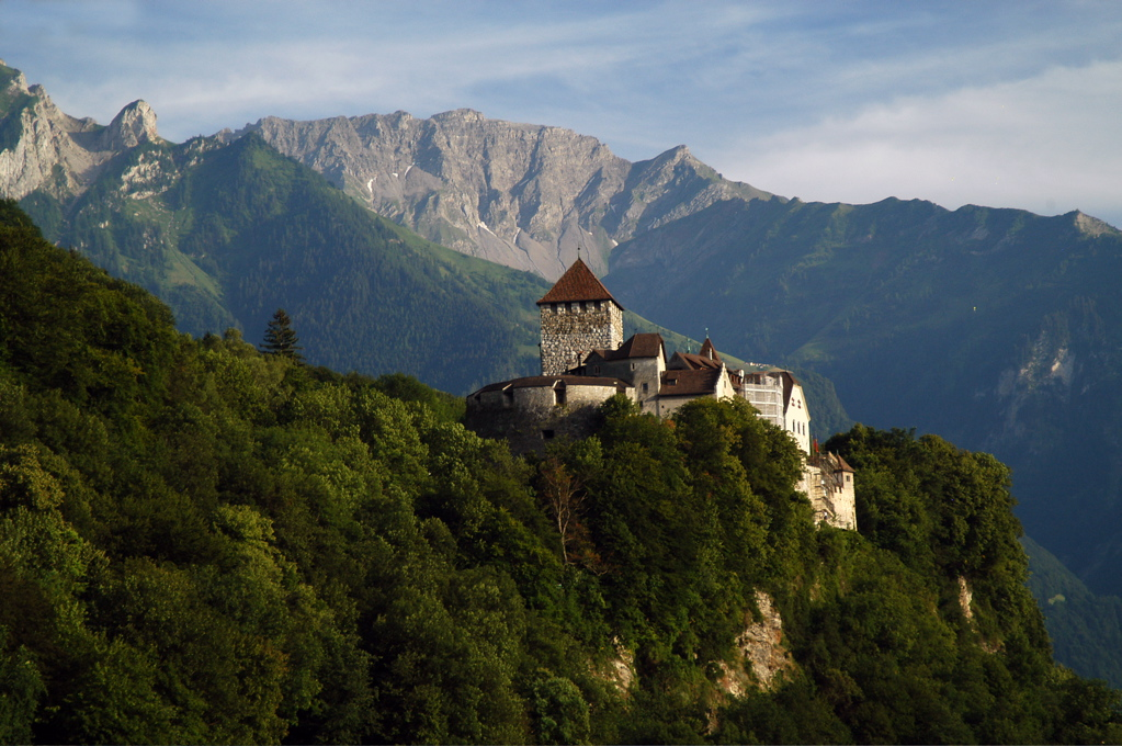 Vaduz Castle, Liechtenstein